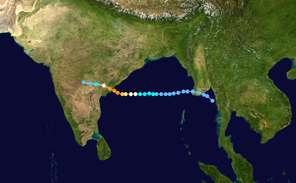 Cyclone 07B 1996 track. Uses the color scheme from the Saffir-Simpson Hurricane Scale.